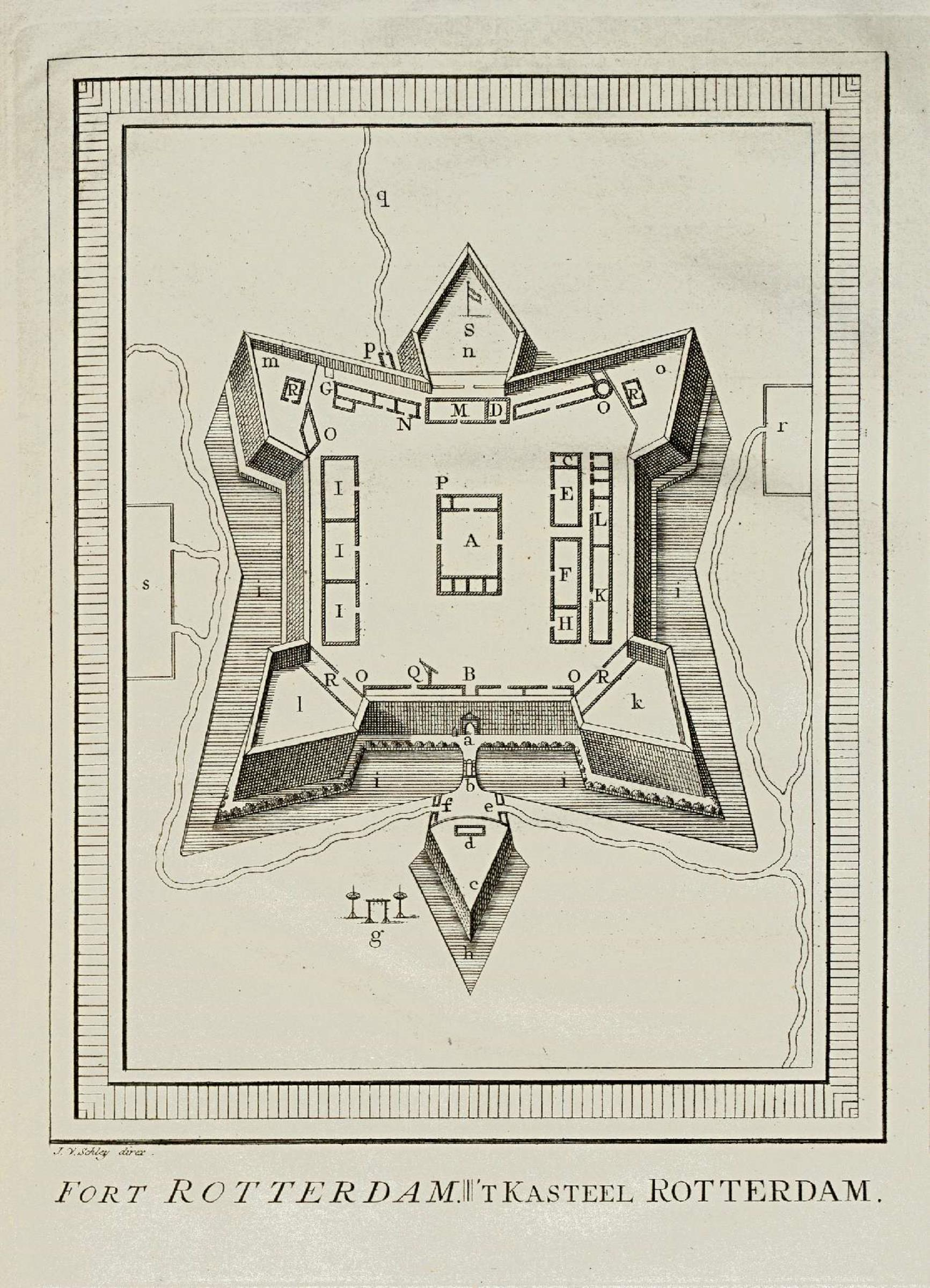 Floor plan of Fort Rotterdam at Makassar. Fort Rotterdam. 't Kasteel Rotterdam. The key numbers on the chart are not accompanied by explanatory notes. The illustration corresponds to Valentyn, "Oud en Nieuw Oost-Indiën", part III b, second part, prior to p. 137: Cf. Koninklijke Bibliotheek, The Hague, inv. nr. 185 A 5 dl IIIb, II, p. 137.